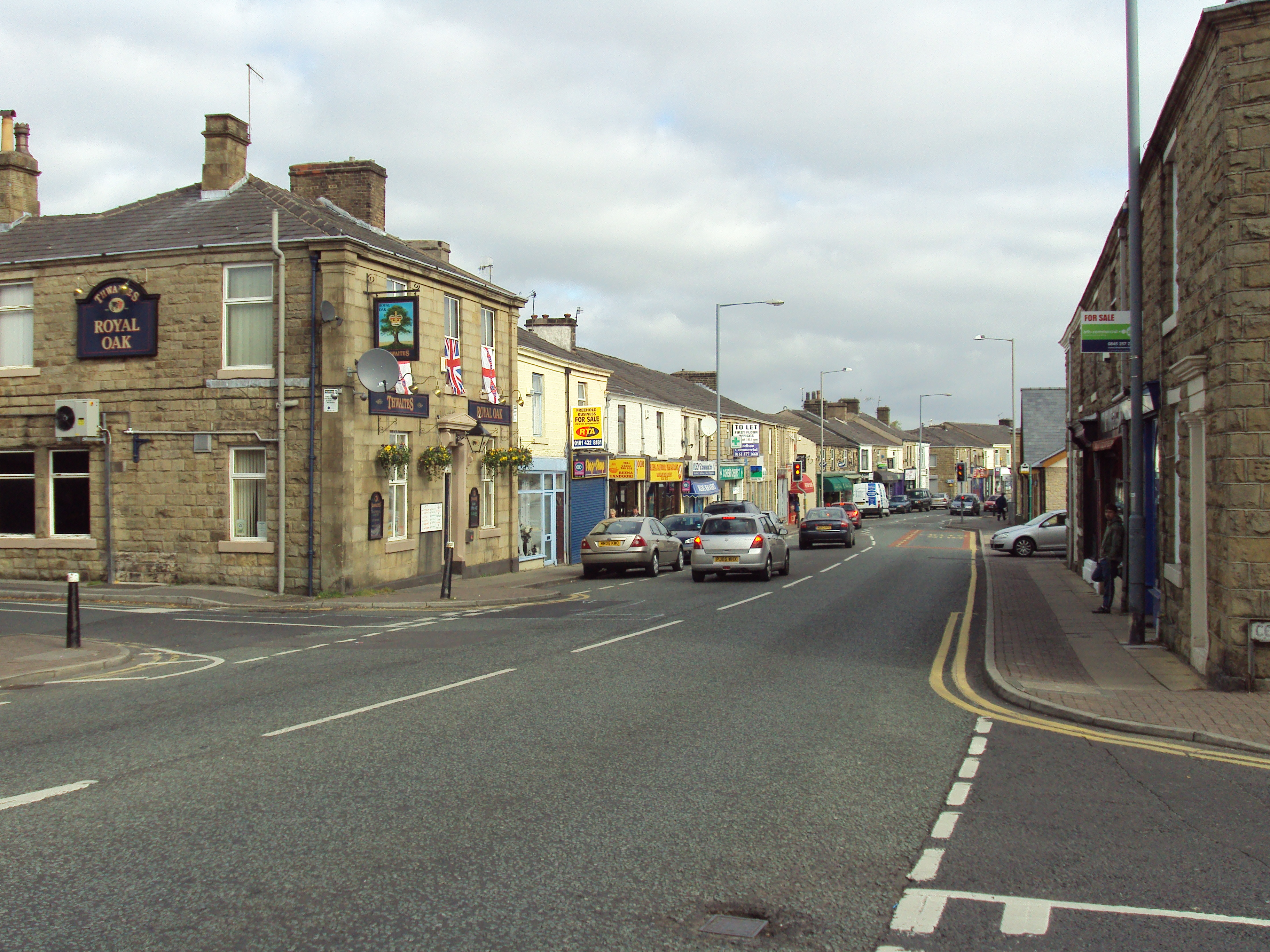 Union Road, Oswaldtwistle, Lancashire, England.